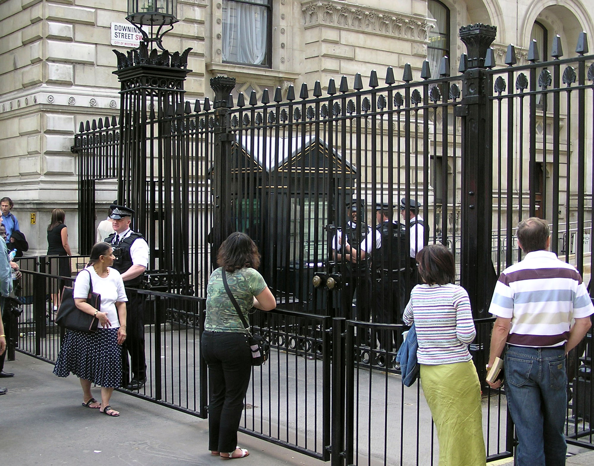 The gates at the entrance to Downing Street, London. Taken by Adrian Pingstone in June 2005 and released to the public domain.